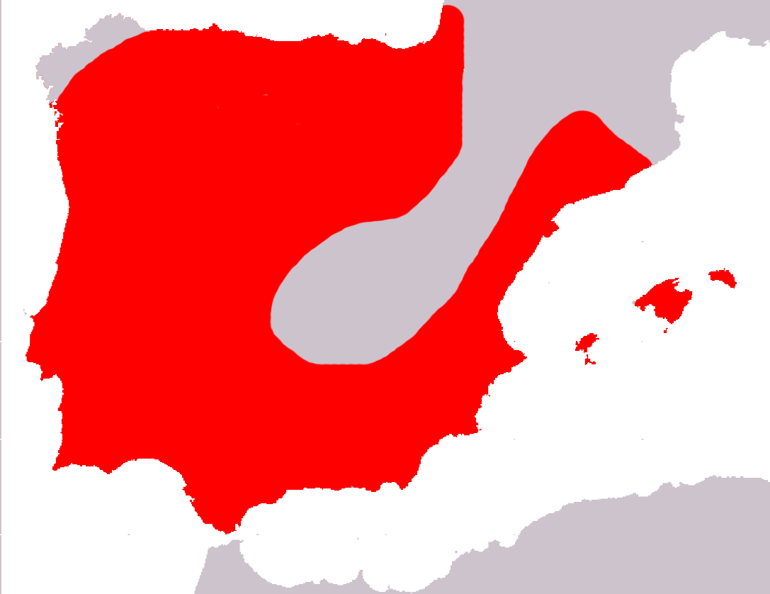 Distribution map of Myotis escalerai.